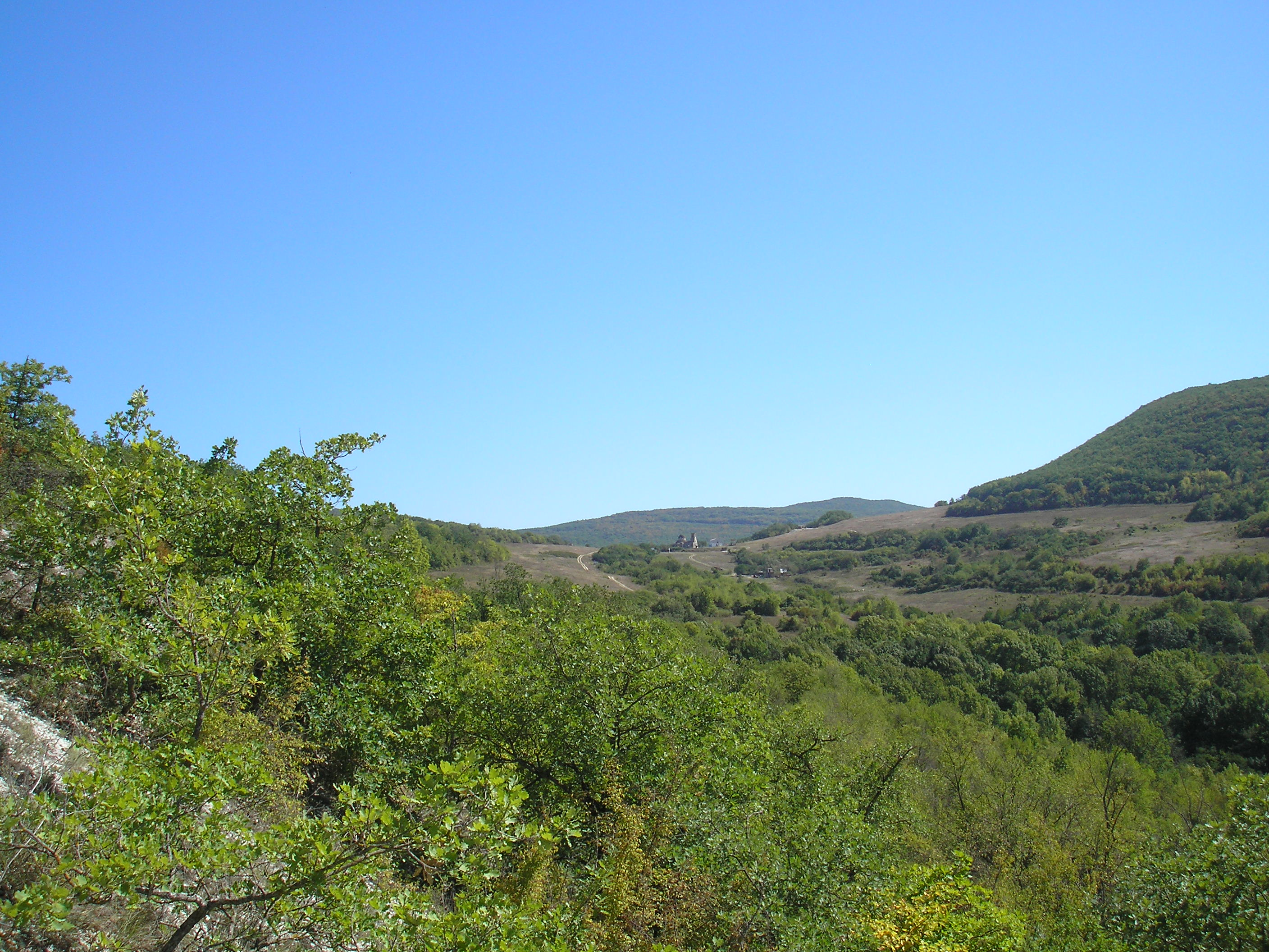 Former village Laki (Goryanka), Bakhchisaray Raion, the Crimea.